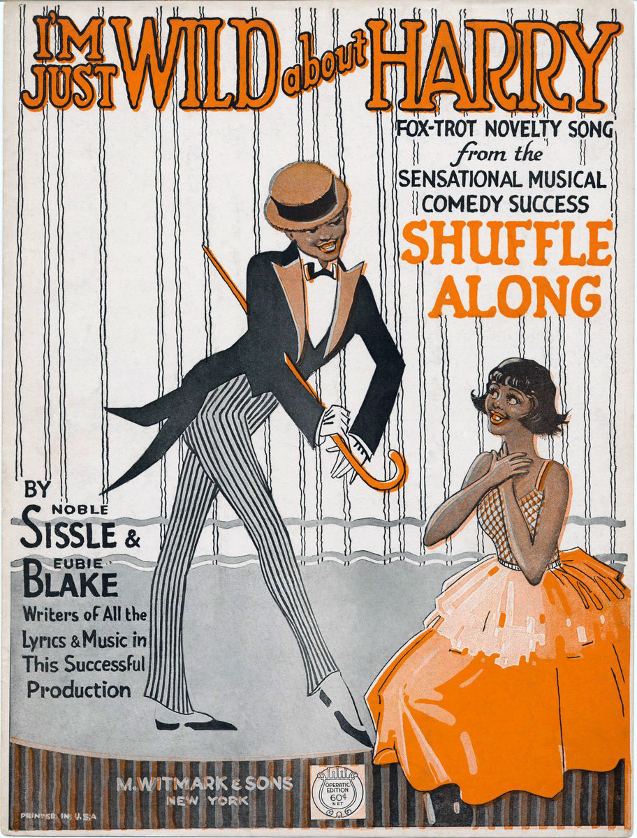 "I'm Just Wild About Harry" (sheet music) page 1 of 4.